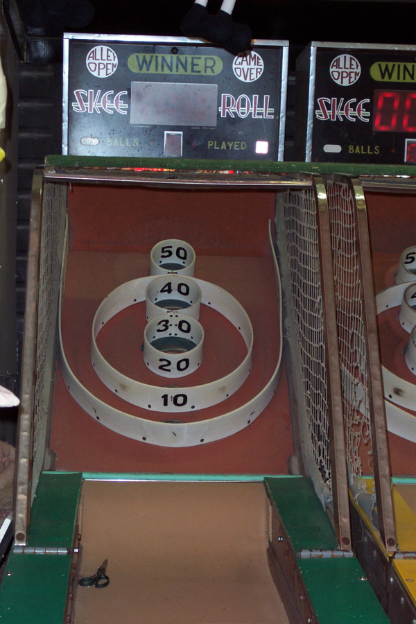 Taken at the State Fair of Texas October 11, 2004.